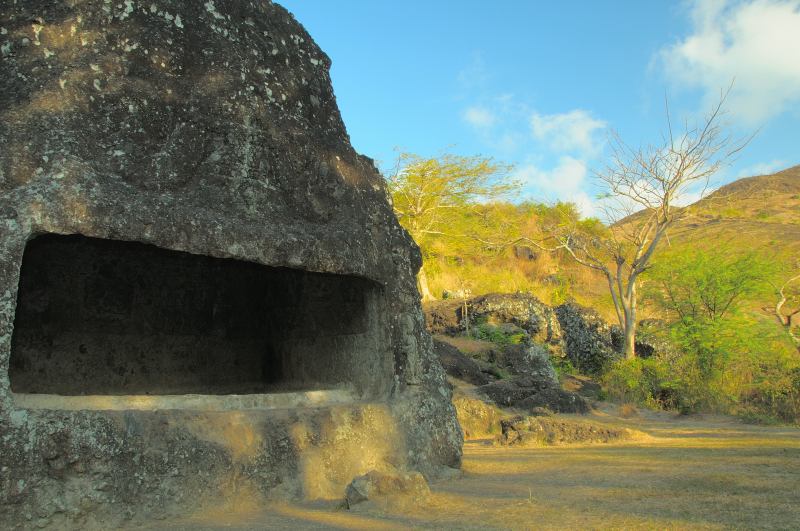 Candi Selomangleng, Boyolangu, Tulungagung, Jawa Timur.